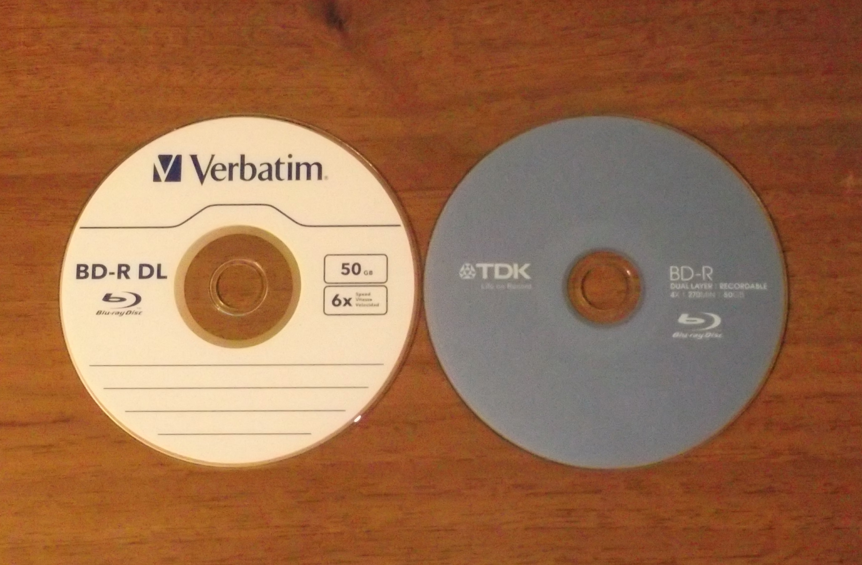 Blu-Ray Dual Layer disks Verbatim and TDK.